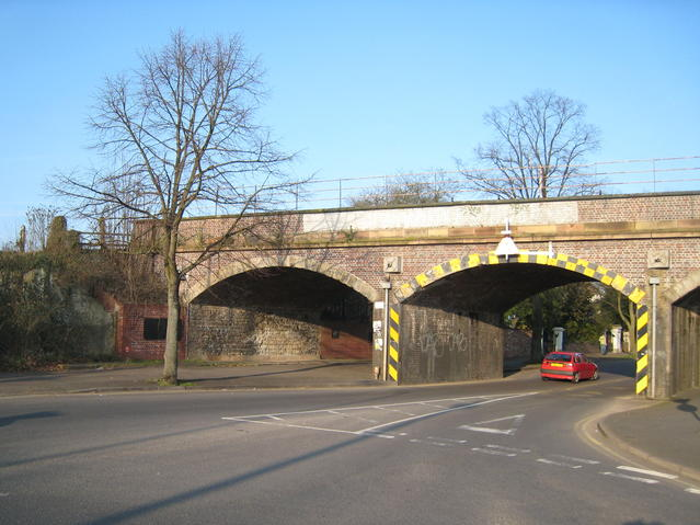 Site of Milverton Station Milverton Station on the Leamington to Coventry line was situated on the embankment to the left of the bridge. In its last form the booking office was at street level and the left hand arch was divided up to provide a subway between the two platforms. The station on the Warwick New Road was roughly halfway between Warwick and Leamington and as a result over its life between the mid 1800s and its closure in 1964 it had no less than 9 names. These included just Leamington, when it was Leamington's only station, followed variously by Warwick, Warwick (Milverton), Leamington (Milverton), Leamington Milverton (Warwick) and Milverton for (Warwick) and finally Leamington Spa (Milverton) for Warwick depending upon the prevailing political and marketing thinking at the time. The station's other claim to fame is that it was damaged by an IRA bomb shortly before the outbreak of WWII.